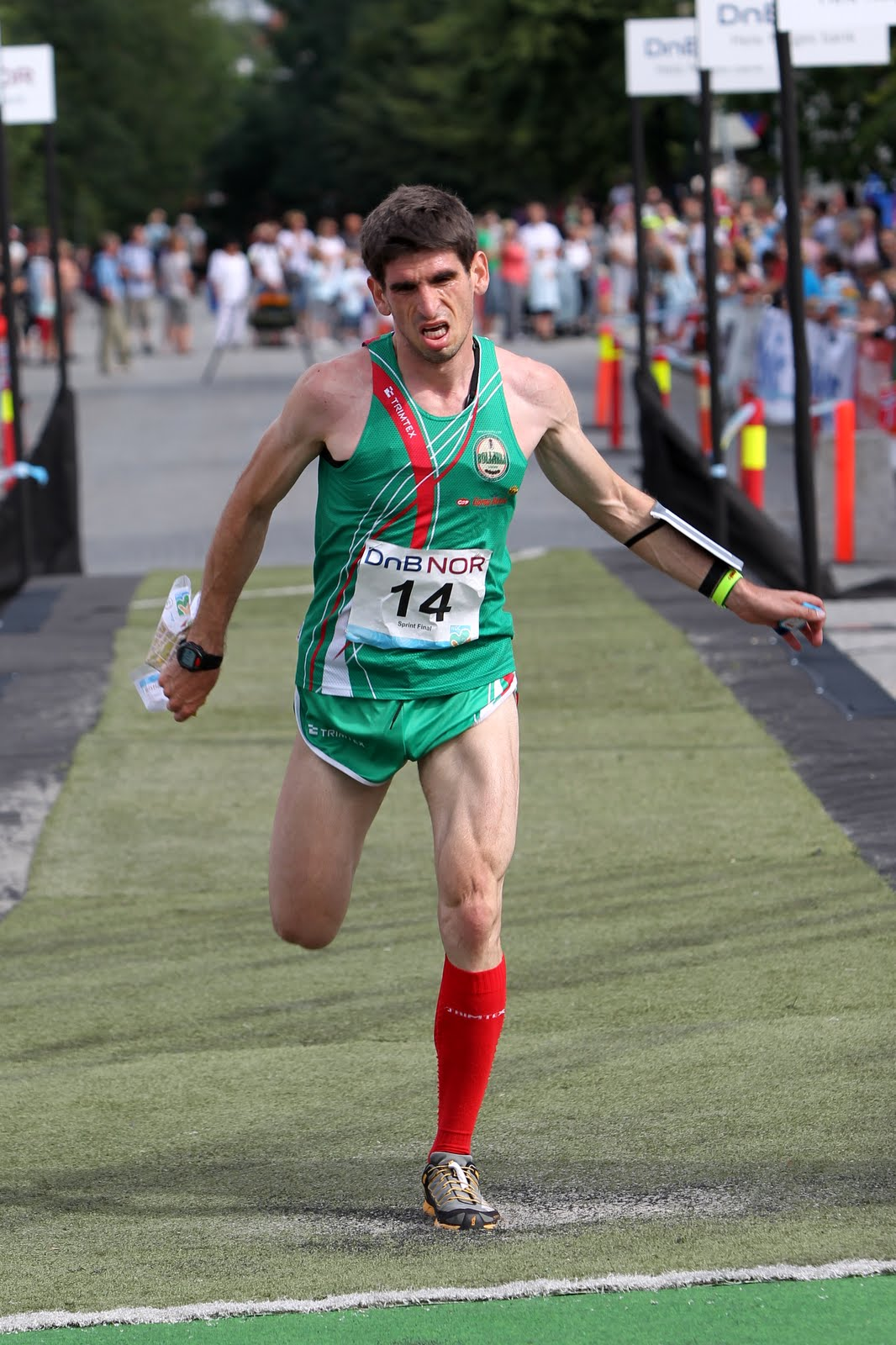 Kiril Nikolov at World Orienteering Championships 2010 in Trondheim, Norway